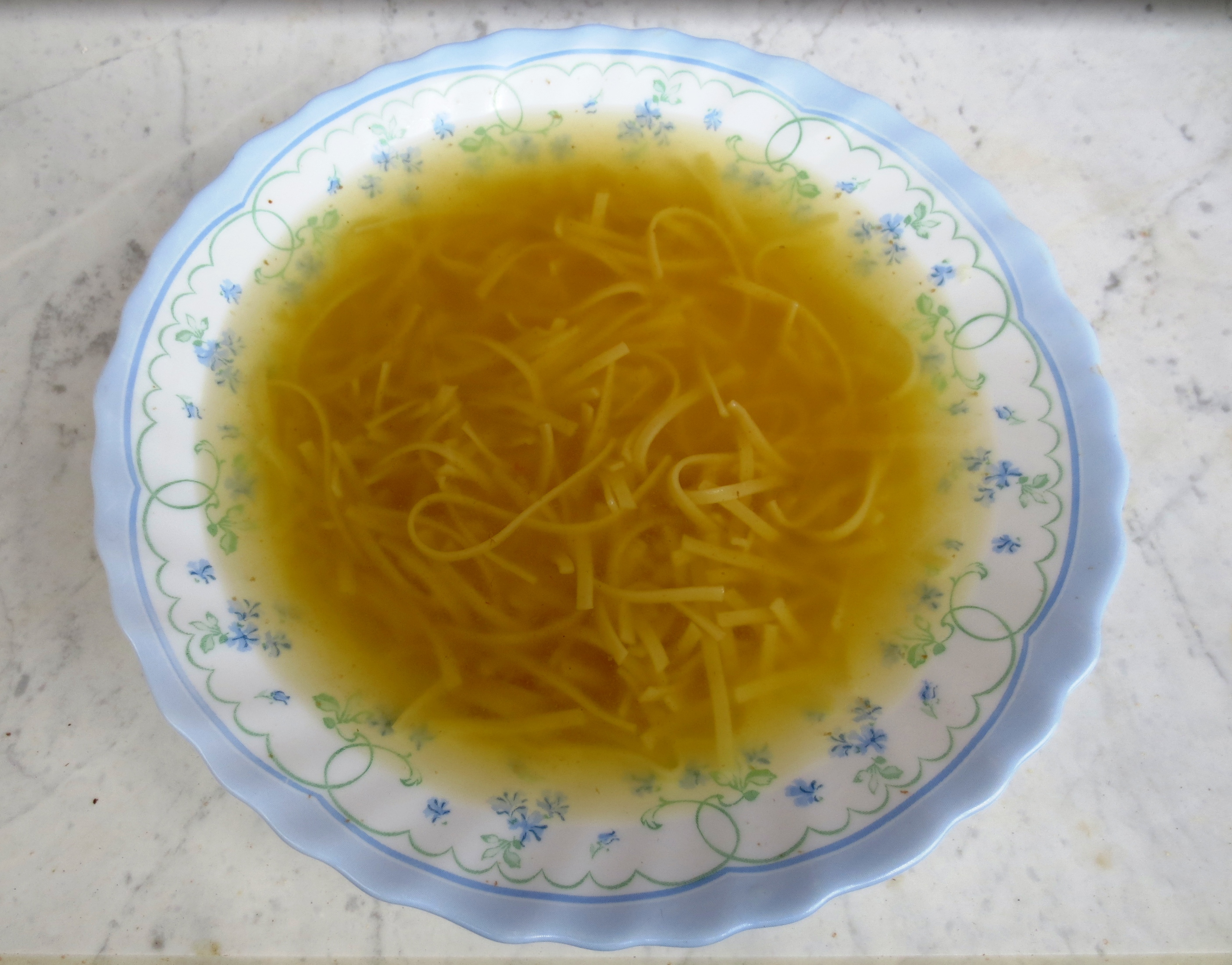 Plate of beef soup with noodles